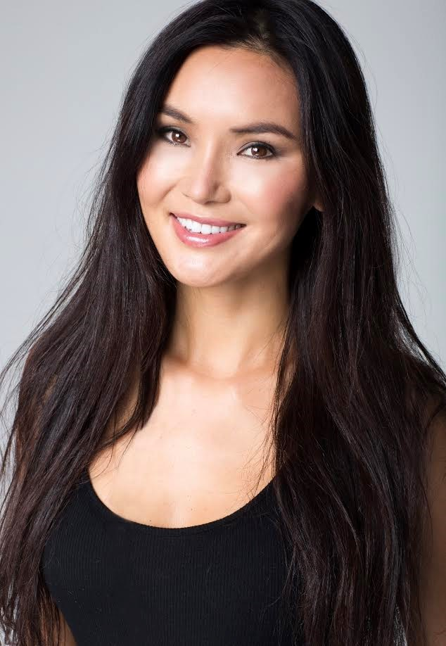 Picture of Soo Yeon Lee